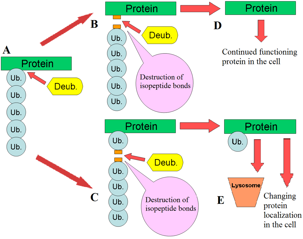 Deubiquitination protein. The human genome encodes nearly 100 deubiquitinating enzymes, making them the largest family of enzymes in the ubiquitin system. Deubiquitination protein - the large group of enzymes that are responsible for the removal of ubiquitin from proteins.The functioning of deubiquitination enzymes: А - ubiquitination proteins (protein degradation goes on in proteasome system), В, D - deubiquitination with complete removal of the protein ubiquitin, the protein returns to normal functioning, С,Е -deubiquitination protein with partial removal of ubiquitin, resulting protein can change the location of a cell or degrade in proteasome.